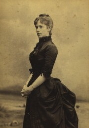 Photograph of the Danish ballet dancer Emilie Walbom (1858–1932)